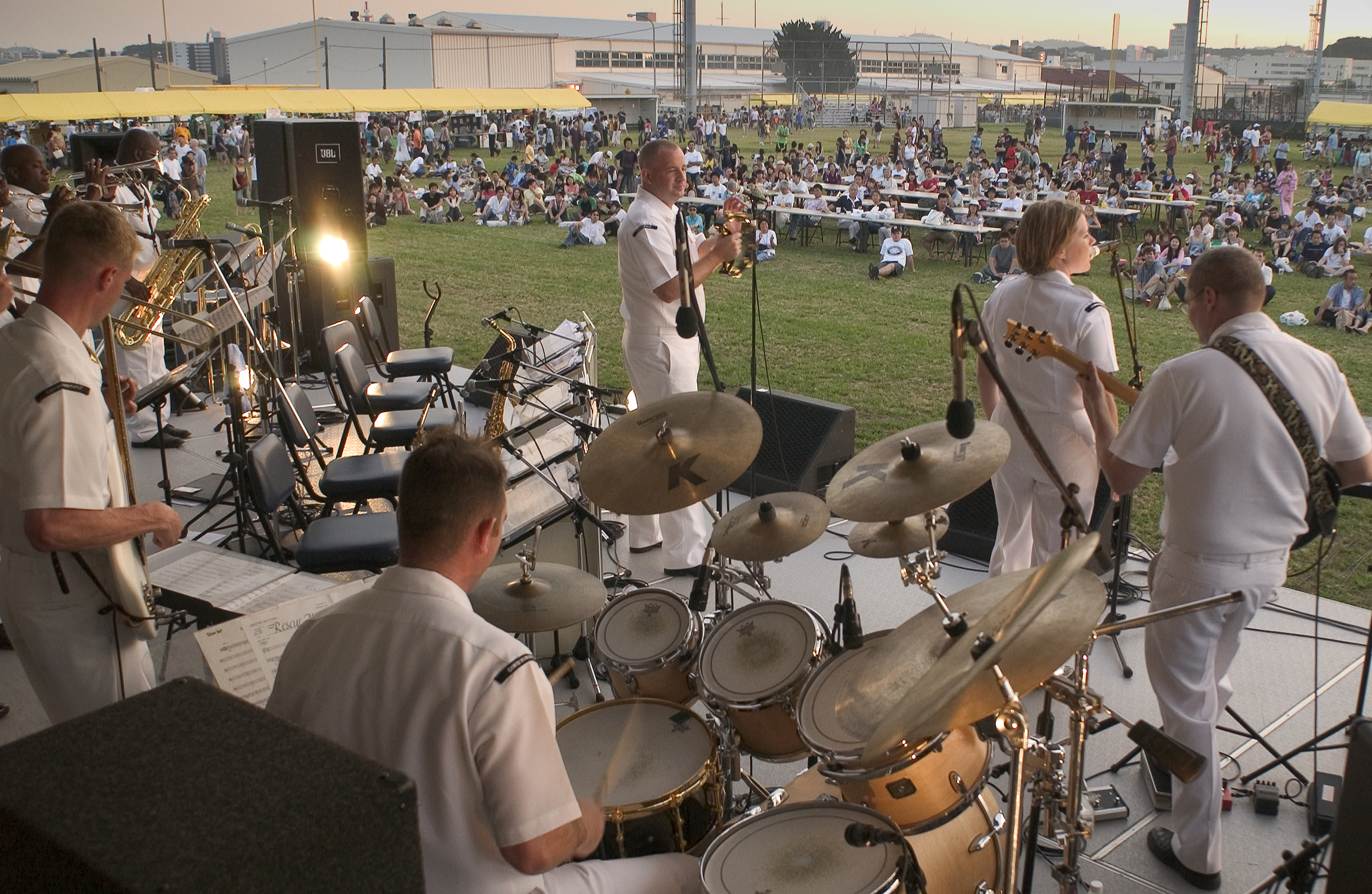 Yokosuka, Japan (Aug. 7, 2005) - The Commander, Seventh Fleet Band, Far East Edition, plays to a crowd of U.S. Sailors and local Japanese citizens, at Berkley Field on board Commander Fleet Activities Yokosuka (CFAY), during the annual Friendship Day Festival. CFAY is opened annually to local Japanese citizens to share fun and festivities with Sailors stationed in Yokosuka in celebration of the friendship between the two nations. U.S. Navy photo by Photographer's Mate 2nd Class John L. Beeman (RELEASED)